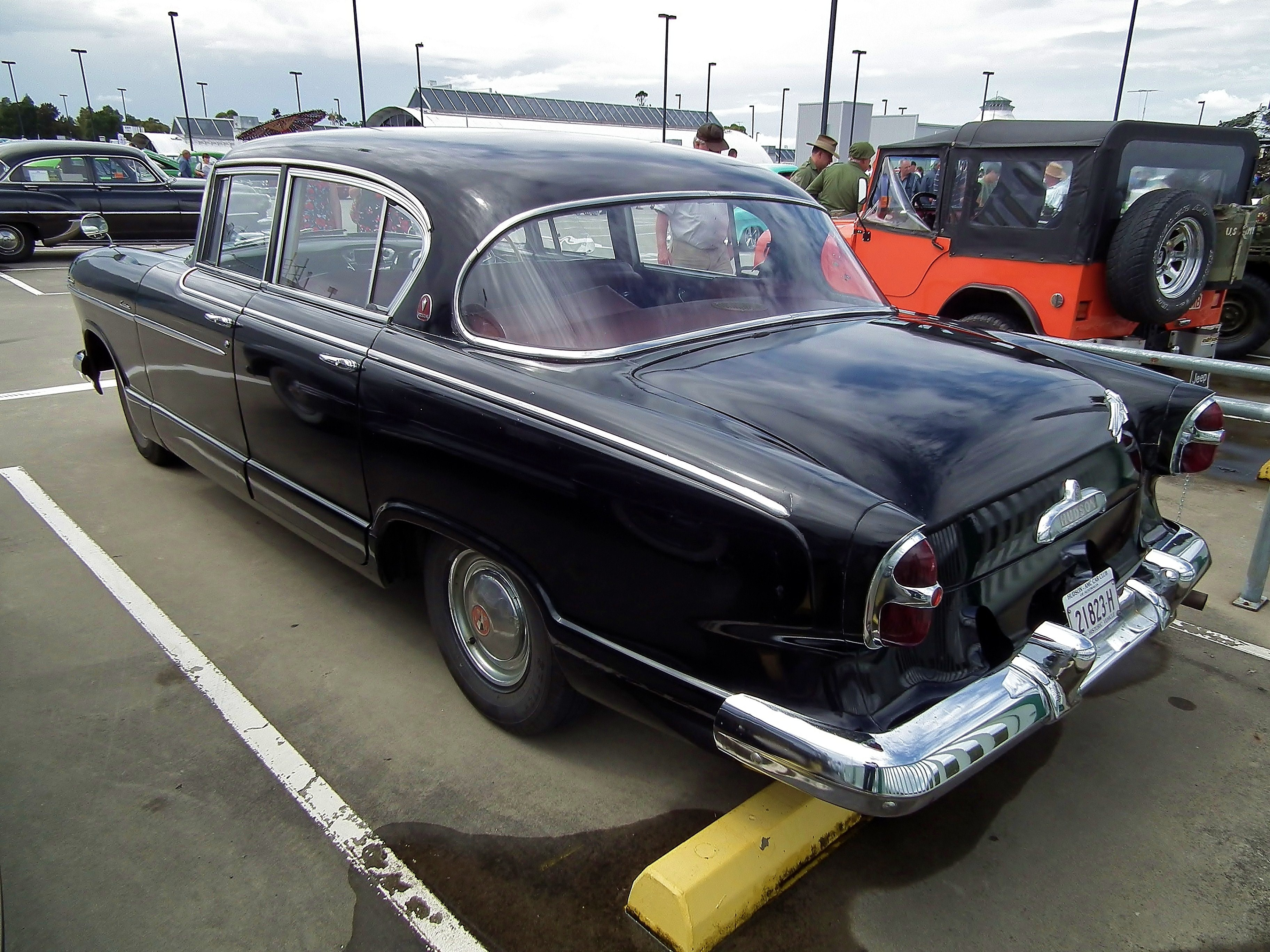 1955 Hudson Hornet Custom sedan. Taken at the 2012 New South Wales All American Day, held at Castle Towers Shopping Centre, Castle Hill, Sydney.